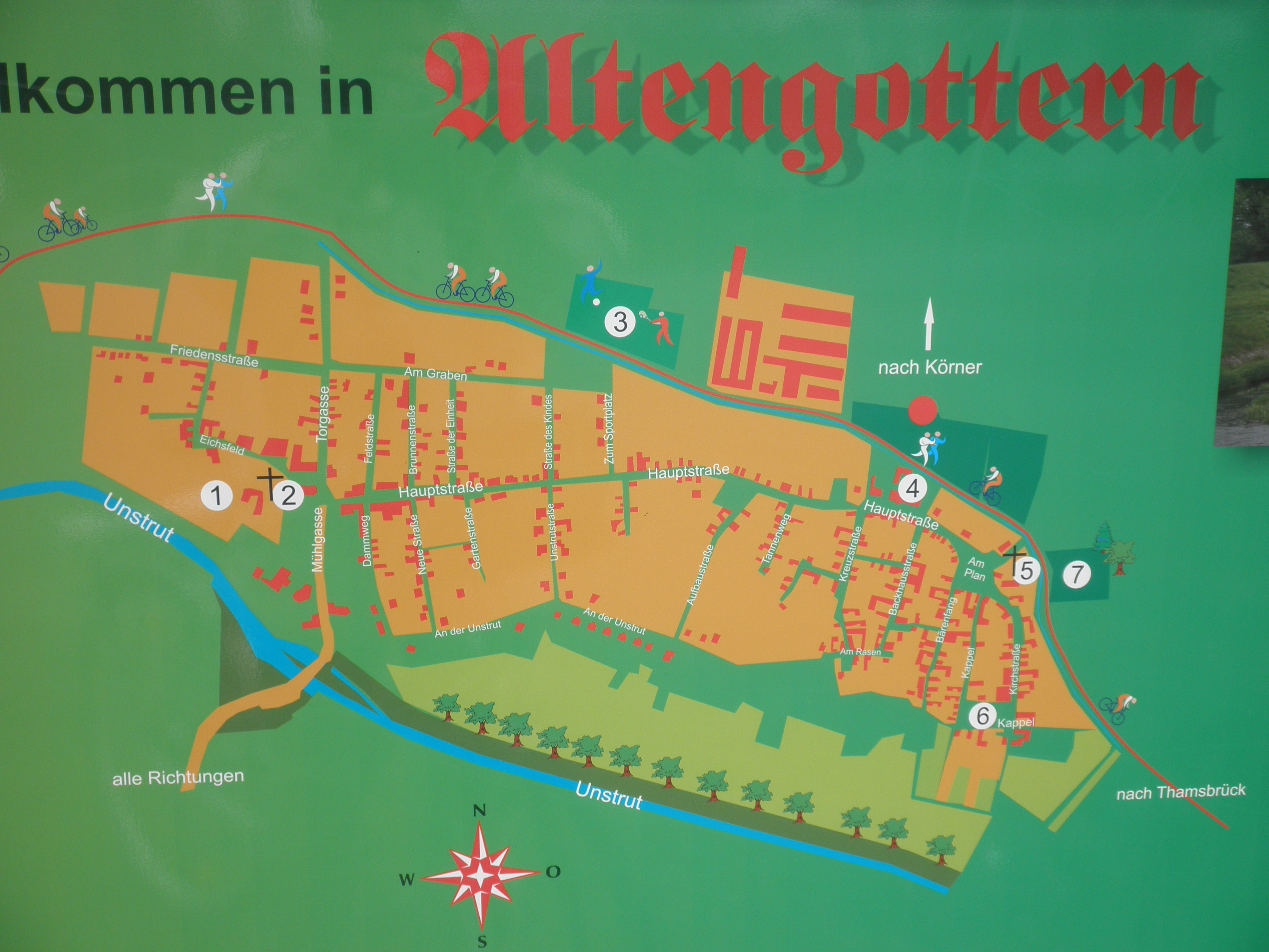 Plan of Altengottern in Thuringia